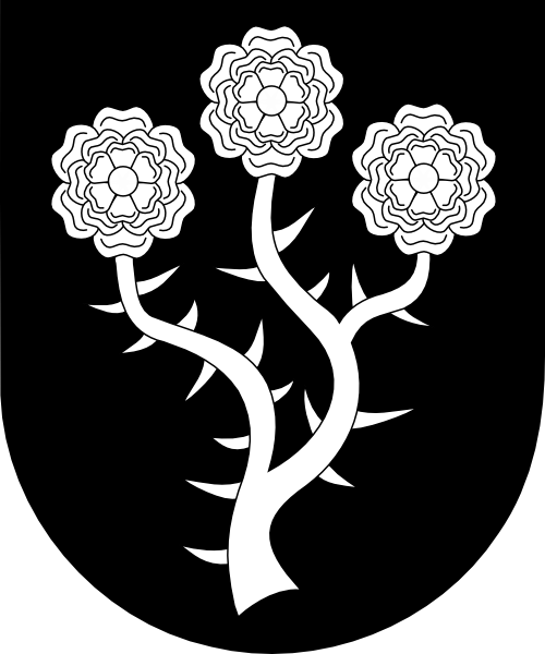 Coat of arms (shield only) of Gregorij Rožman, bishop of Ljubljana, Slovenia (1930 - 1959). Based on his gravestone: and on this